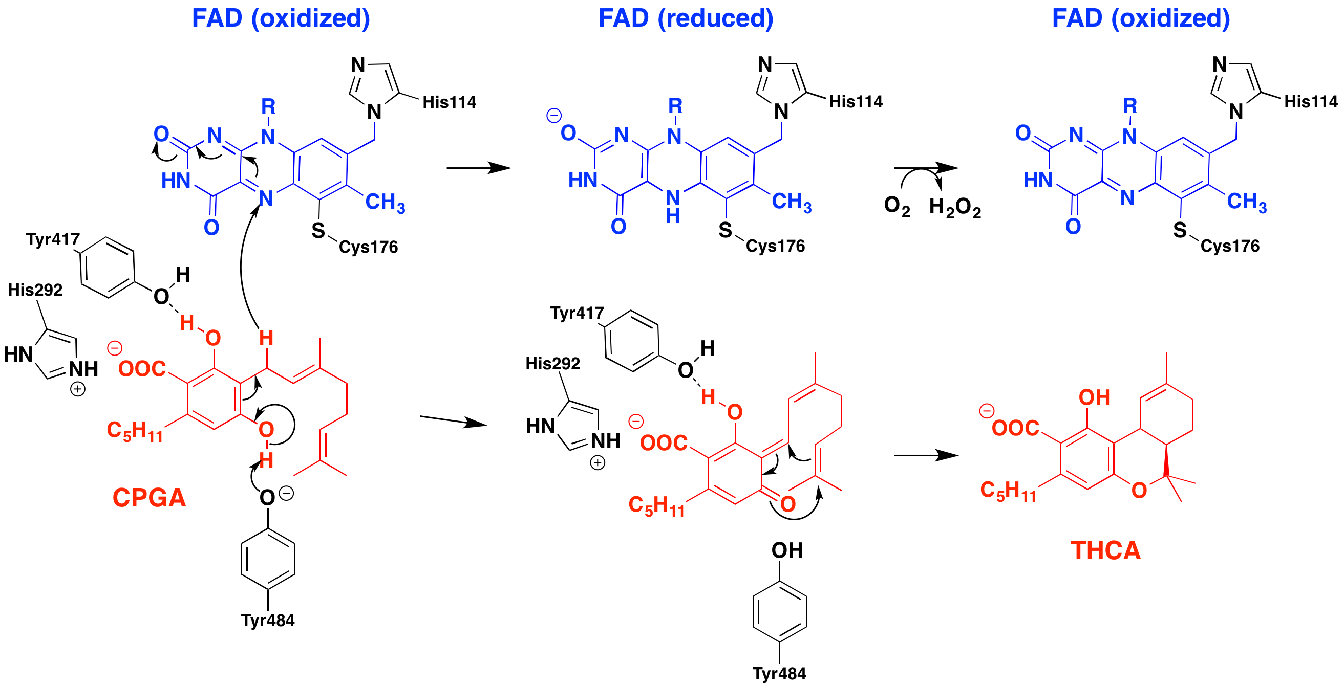 mechanism of THCA synthase for converting CPGA to THCA, from Shoyama et al 2012. Drawn in ChemDraw